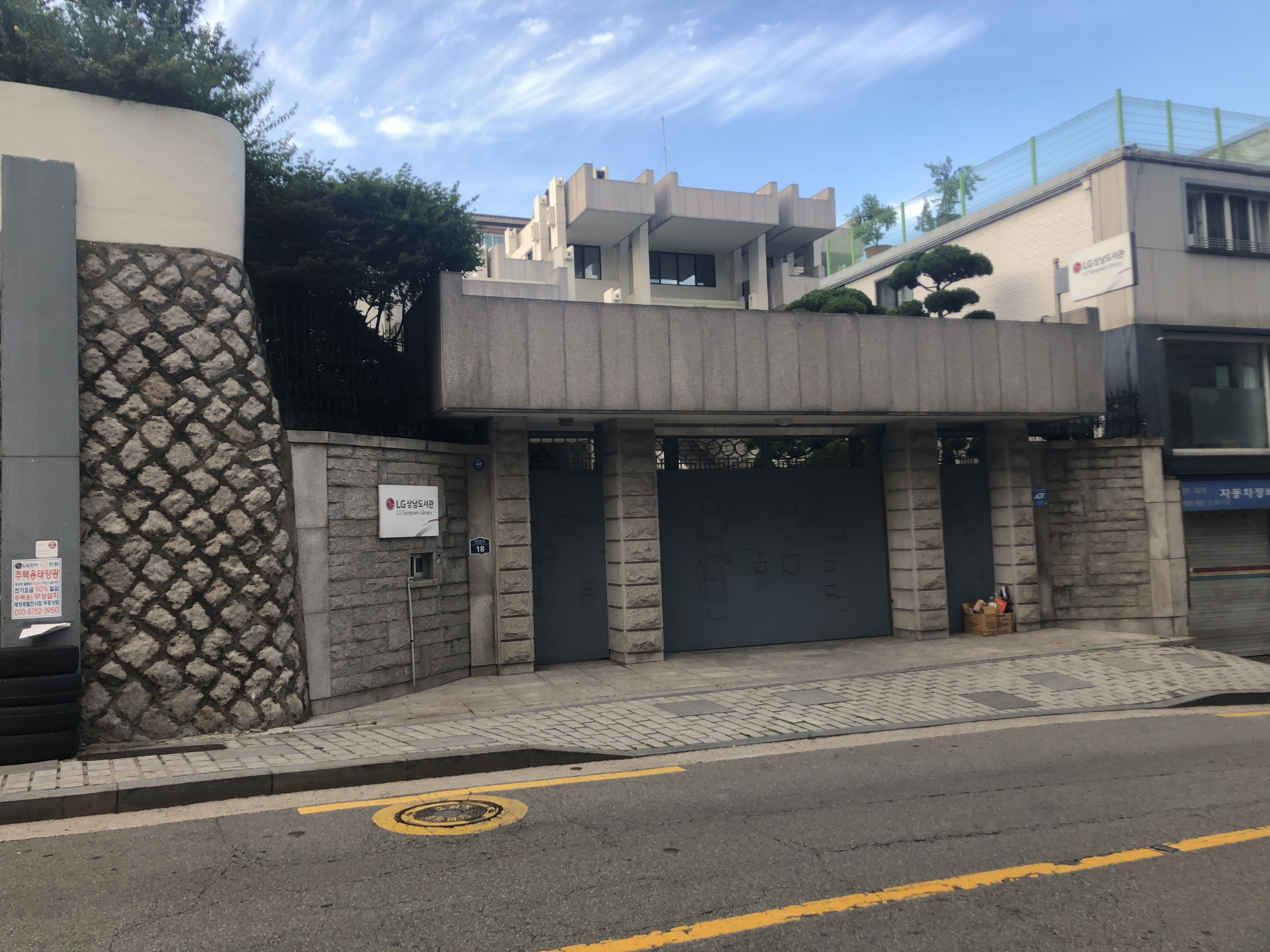 LG Sangnam Library